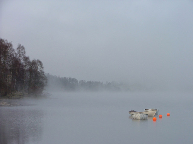 Misty Morning on Loch Insh. It was misty